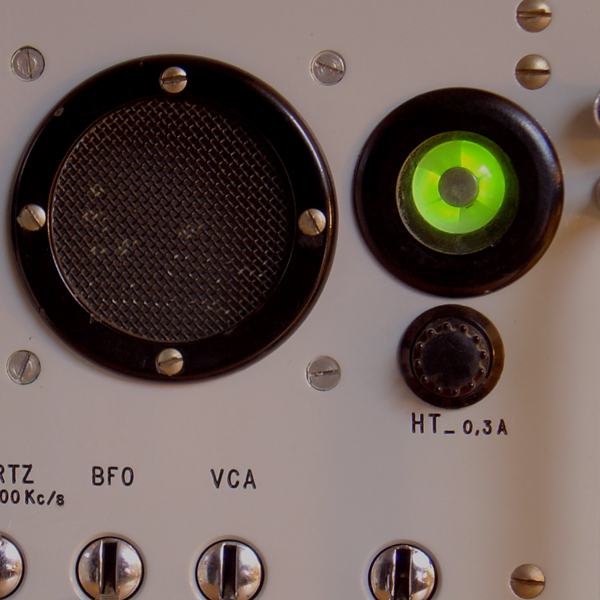 Magic-eye indicator, loudspeaker and fuseholder on the panel of the French AME 7G-1480 radio. This was a professional, rack-mountable 16-tube model with double frequency conversion. Made in 1954-1960; the military version as RR10-A and RR10-B, the civilian version as 7G-1480 [1].